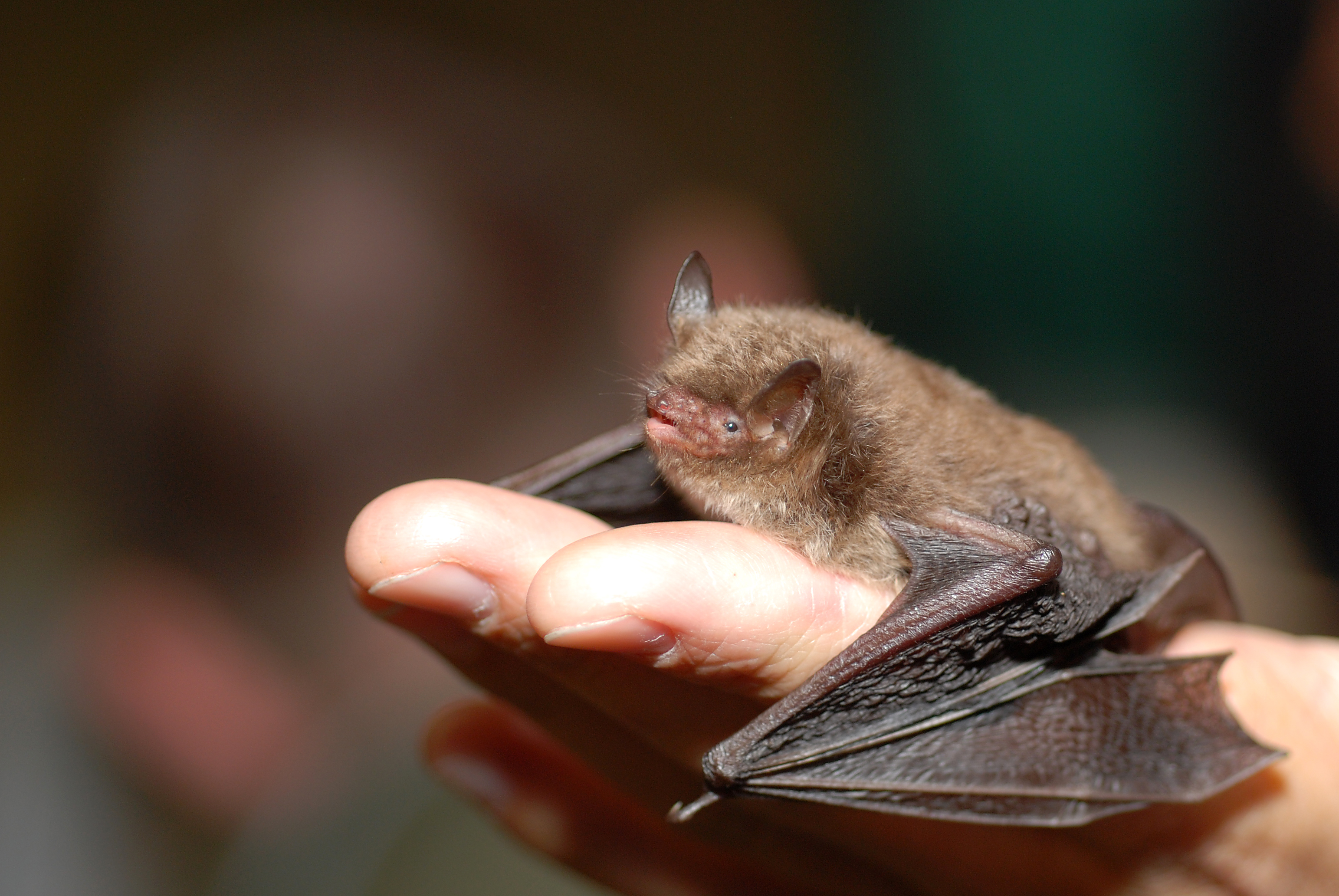 Myotis daubentonii bat on a hand